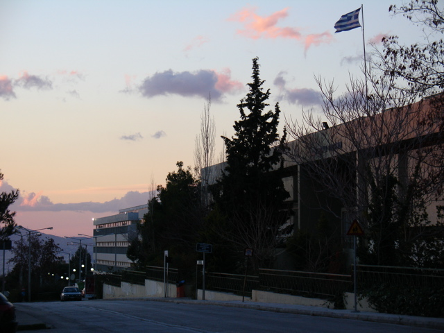 University campus at the Ilissia campus.